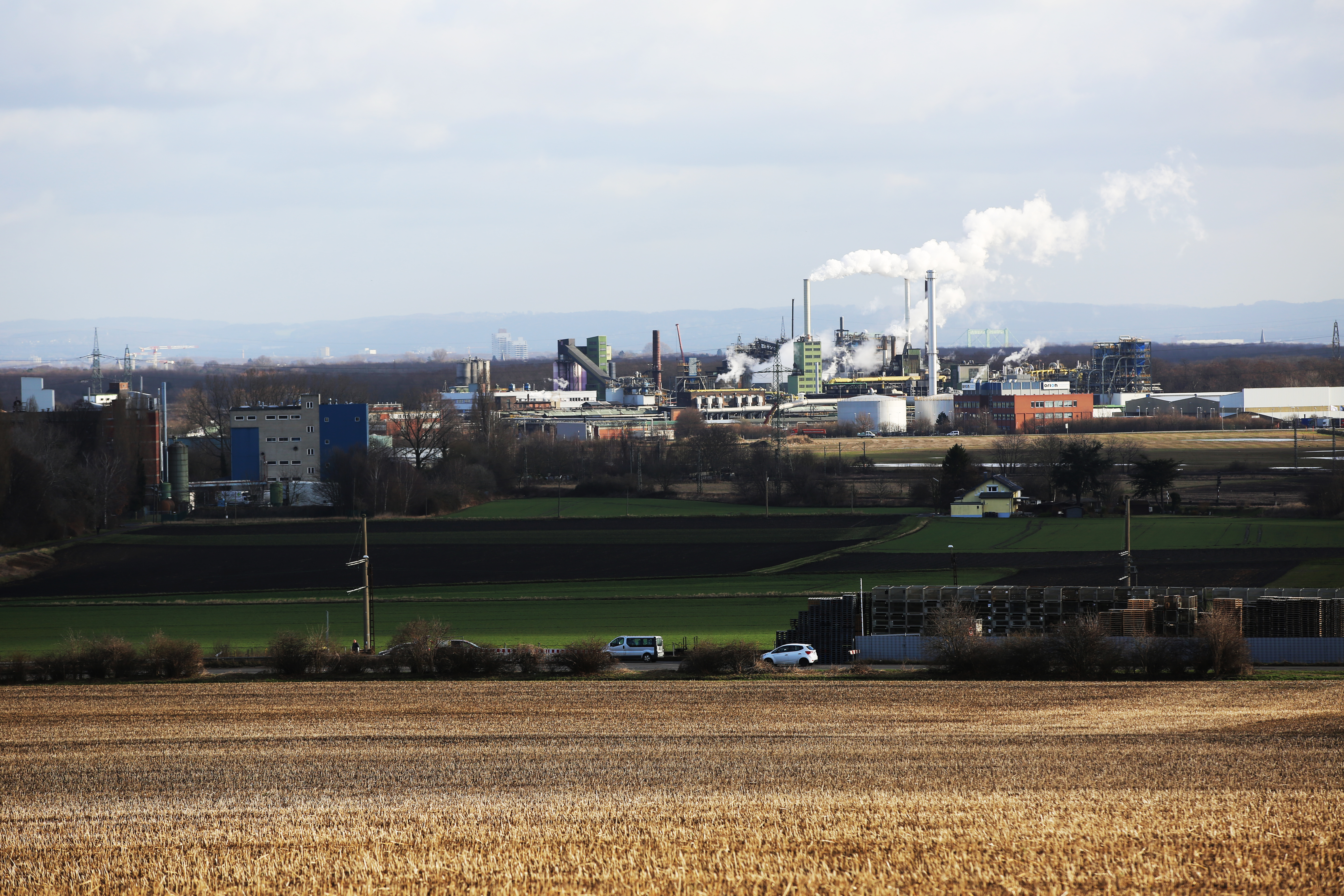 Chemiepark in Kalscheuren (Hürth), North Rhine-Westphalia, Germany